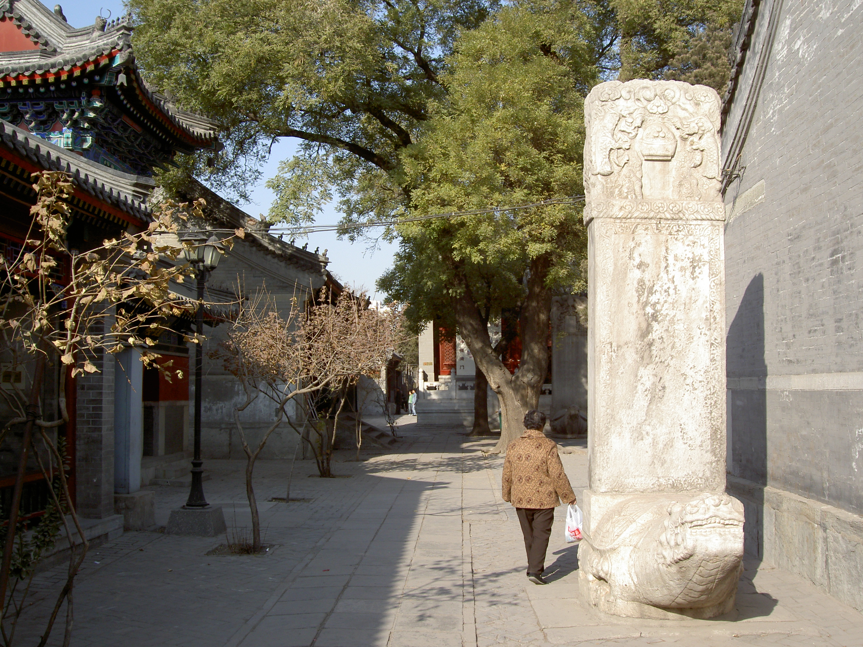 Statue at the Taoist White Cloud Temple in Beijing